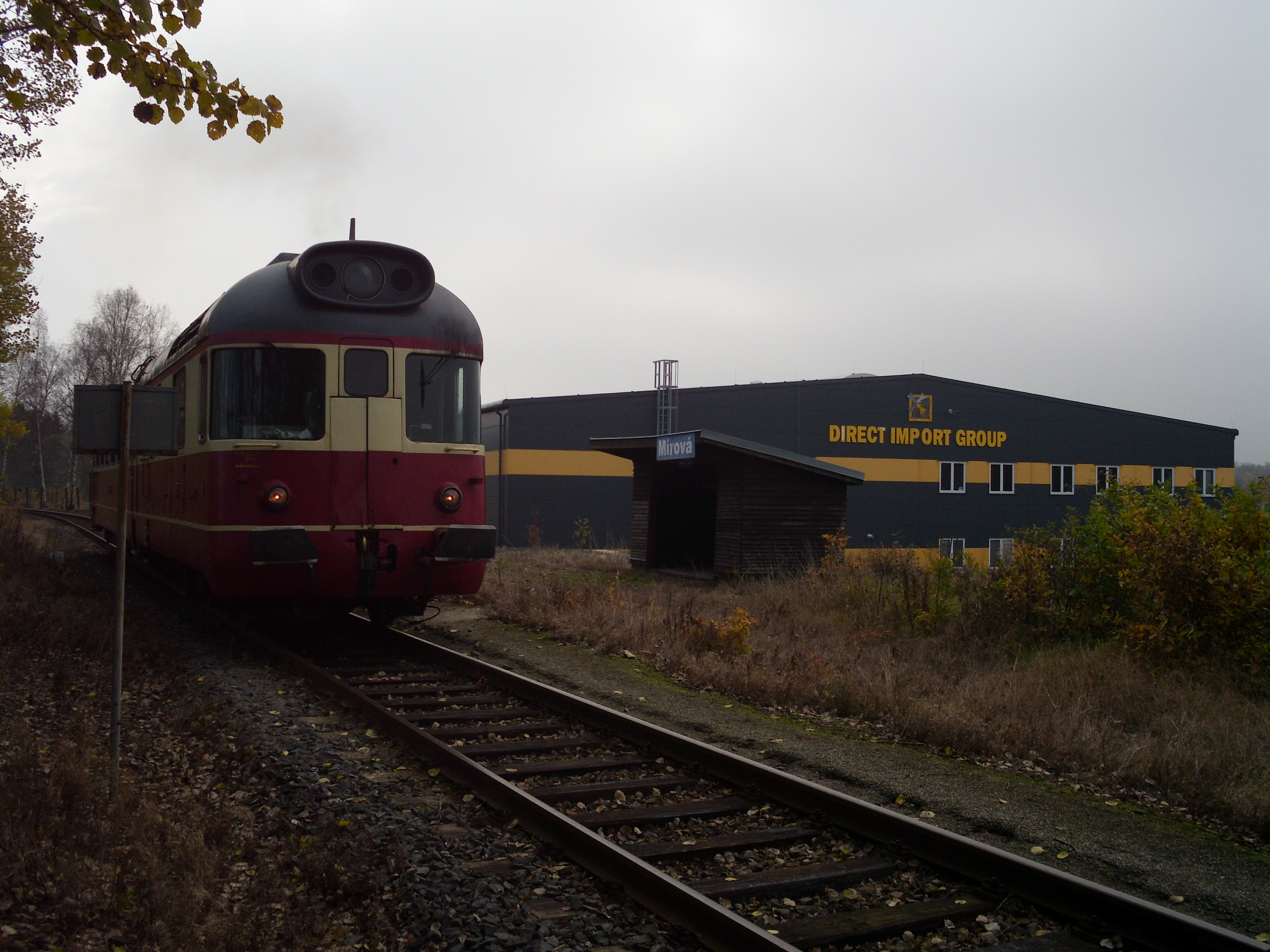 Railcar M286.1008 of KŽC Doprava in Mírová on a route from Nová Role to Chodov.